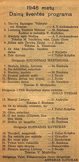 A list of the songs to be played at the 1946 Lithuanian Song Festival. Obtained from the Music Departement of the Book Fund.